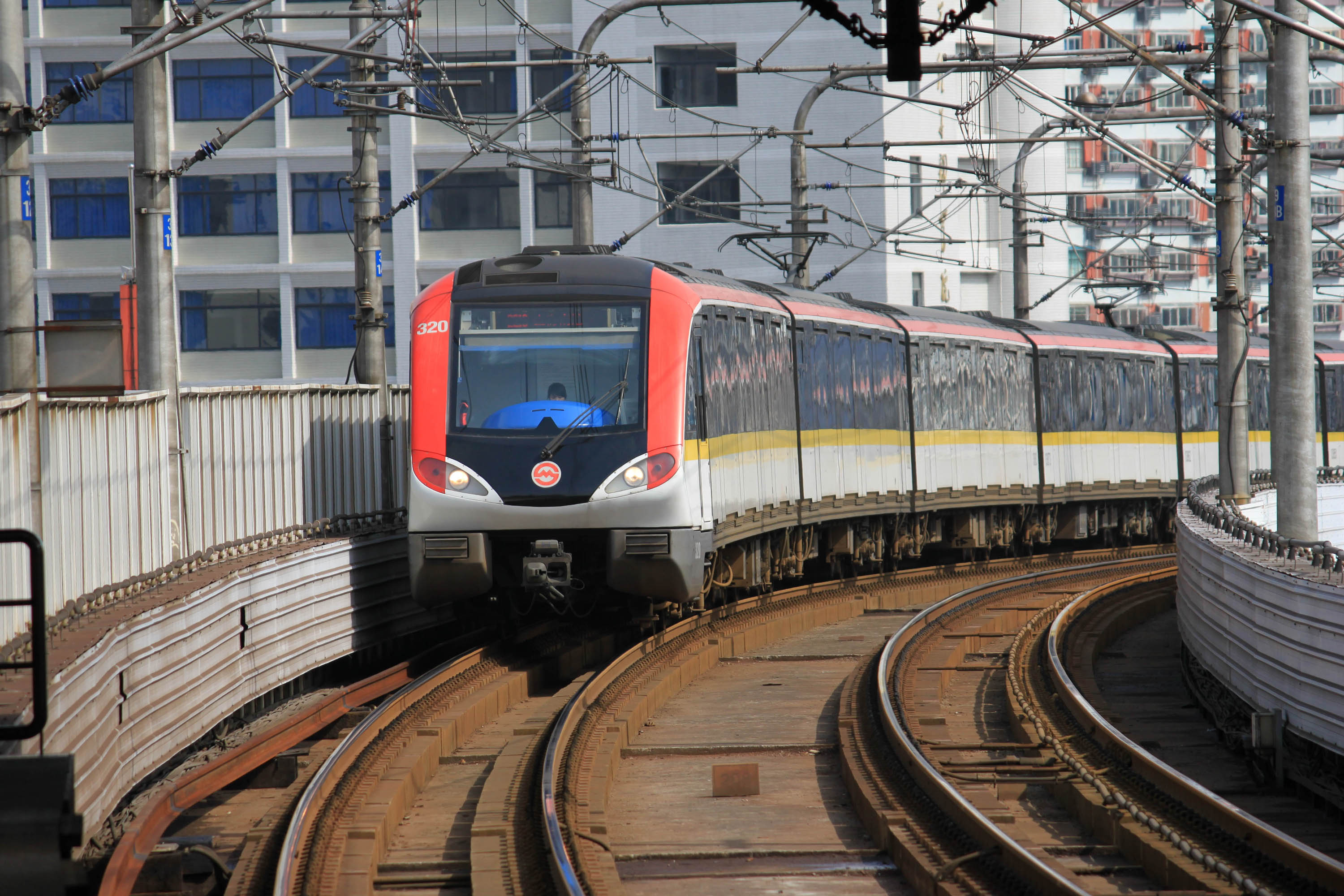 Shanghai Metro Line 3 Train approaching Hongkou Football Stadium Station